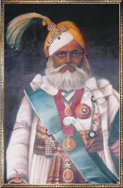 Second Prince of Arcot Sir Zahir-Ud-Daula Bahadur (1874-1879 )